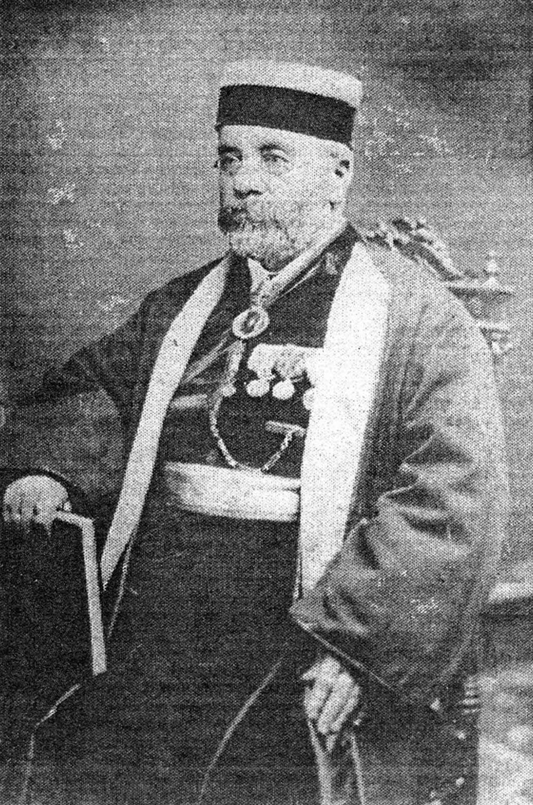 Hazzan of the Feodosian kenassa